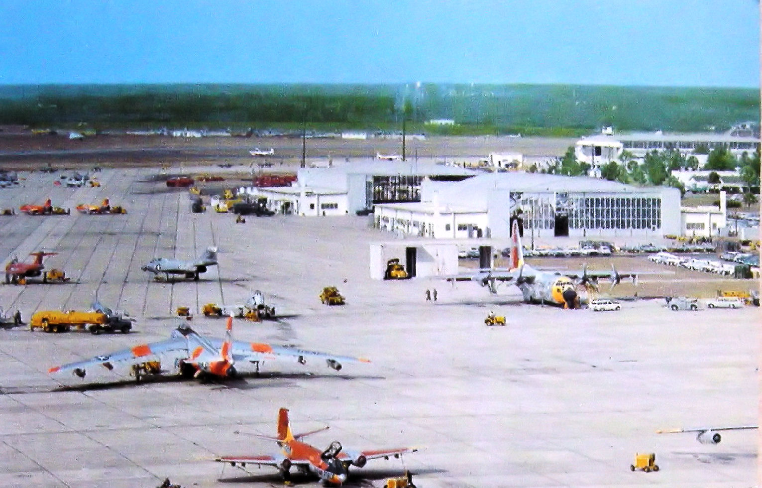 Eglin Air Force Base - Aircraft Parking Apron